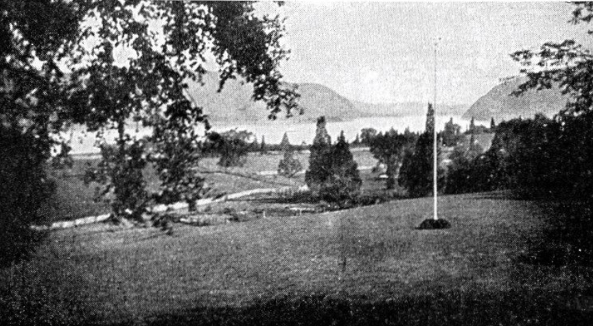 A view of the Hudson from the back lawn of Headley House in New Windsor, New York. The area is now overgrown, obstructing the view.